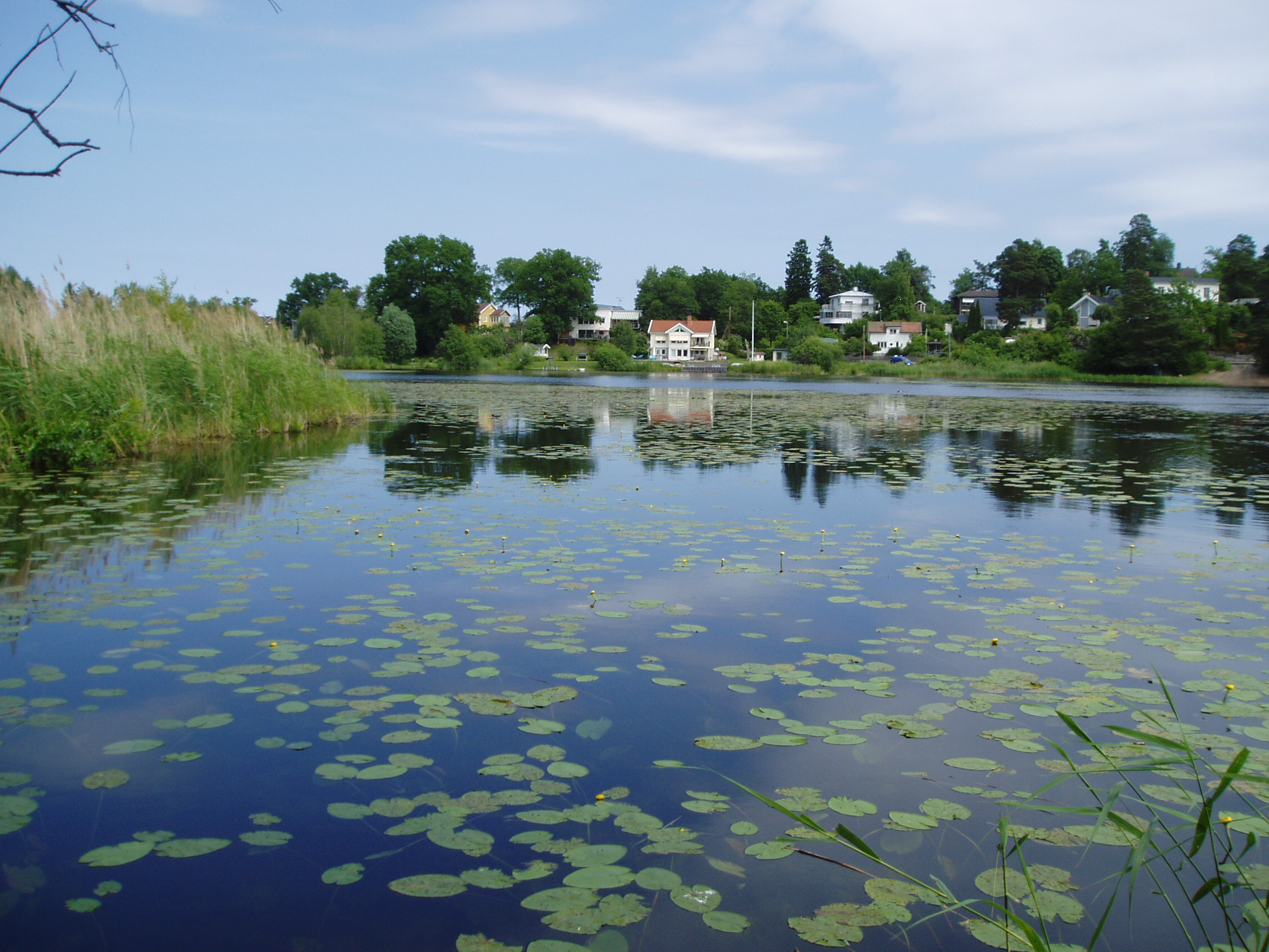 Ravalen, lake in Uppland, Sweden